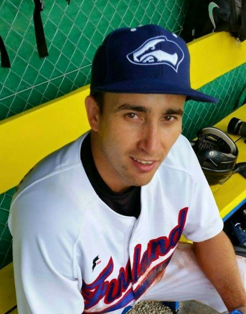 Finnish International Sergio Fernandez played the 2017 season with the Tigers